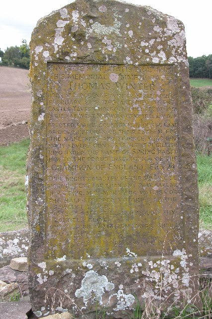 Memorial to Thomas Winter, Fownhope. Memorial to Thomas Winter who was born in Fownhope on February 22 1795 and became the boxing 'Champion of England 1823-24'